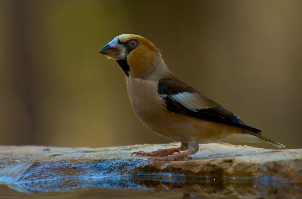 A Hawfinch drinking water in Andalusia, Spain.